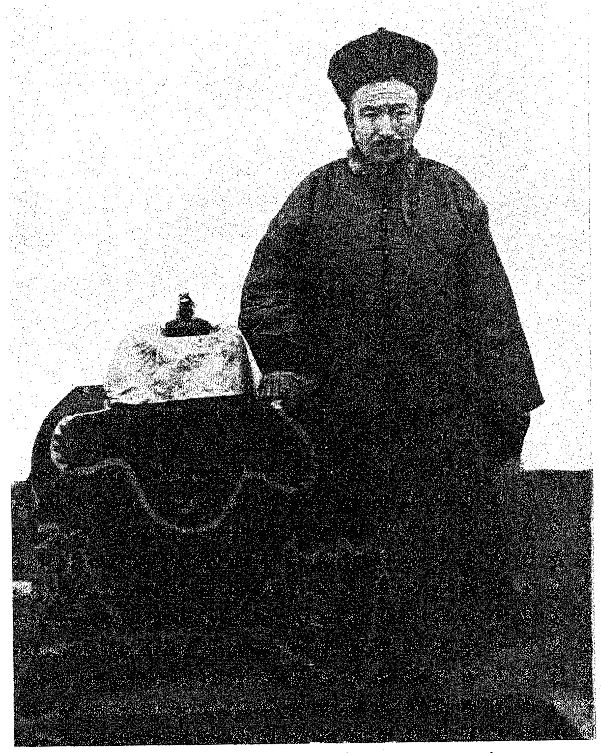 Image from With the Russians in Mongolia，Zasagt Wang Udai